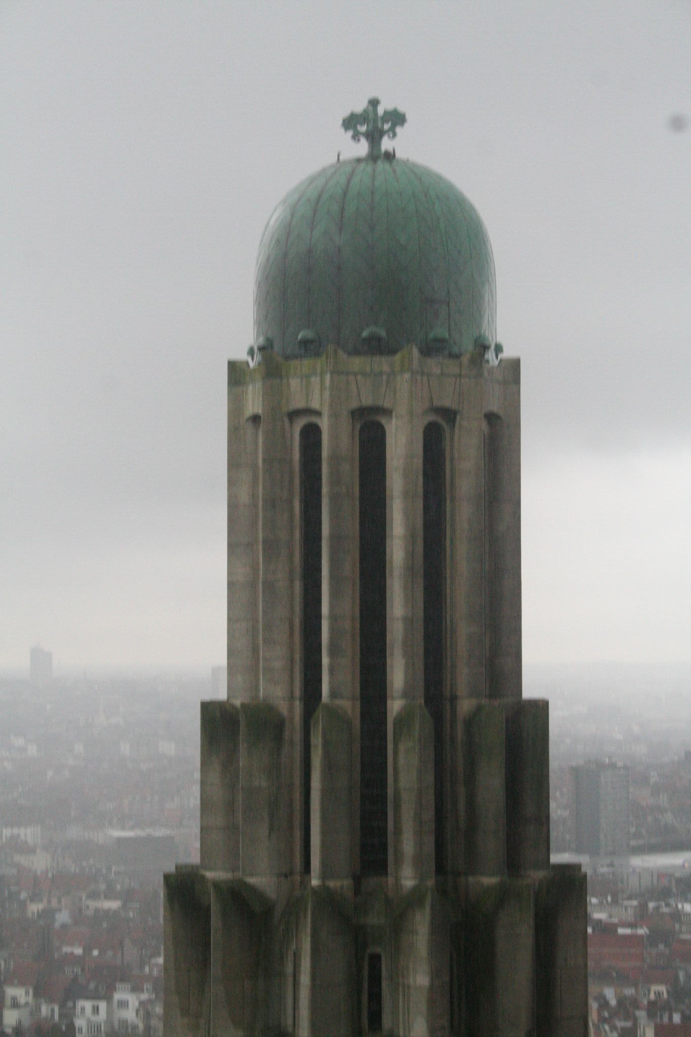 Detail of the Basilica of the Sacred Heart, Brussels